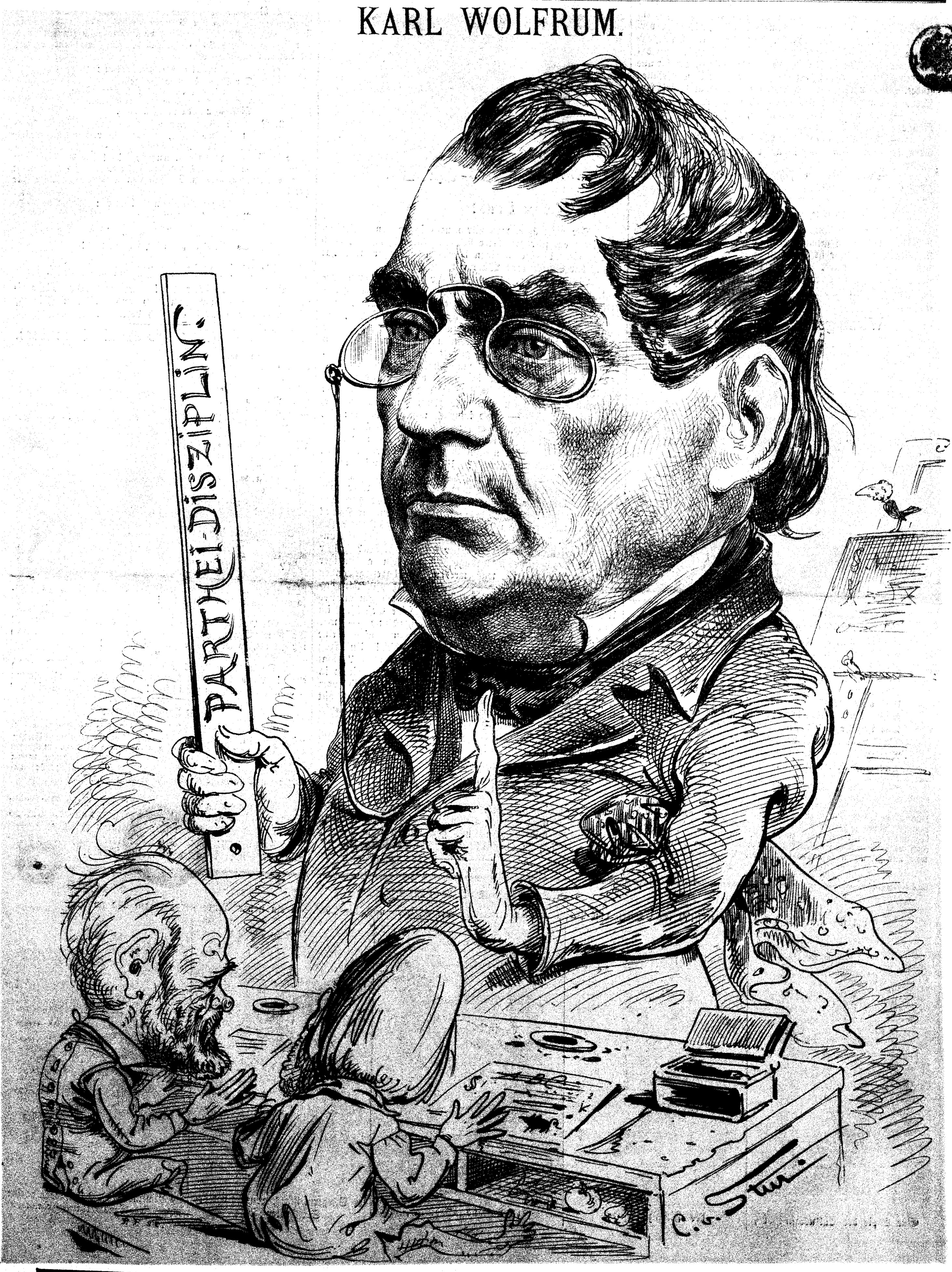 Cartoon of Karl Wolfrum (1813-1888), Austrian and Bohemian industrialist and politician.